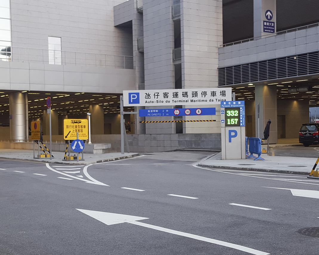 Car Park in Taipa Ferry Terminal